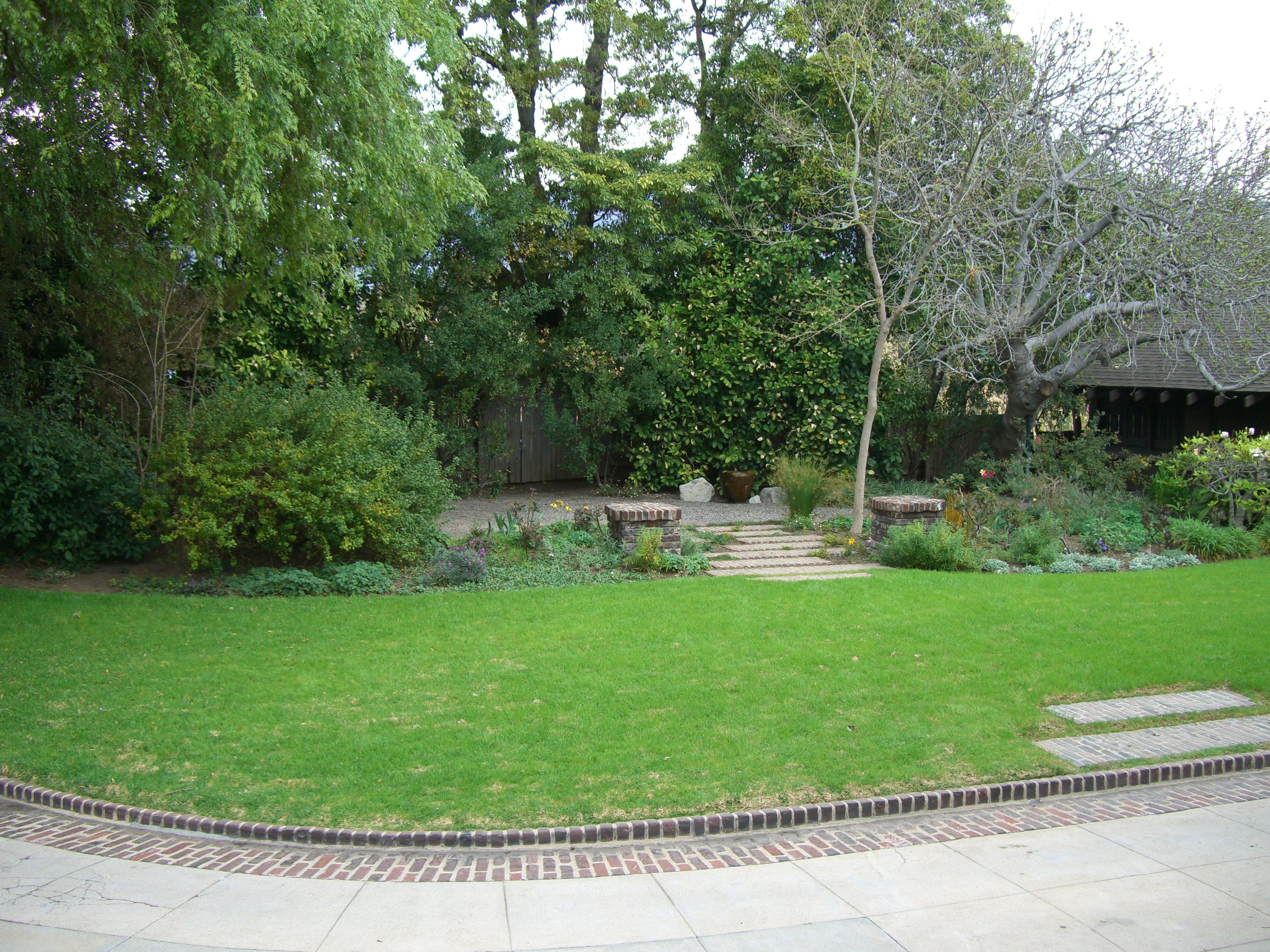 view of the Greene & Greene Spinks House (Pasadena, CA) north terrace facing north